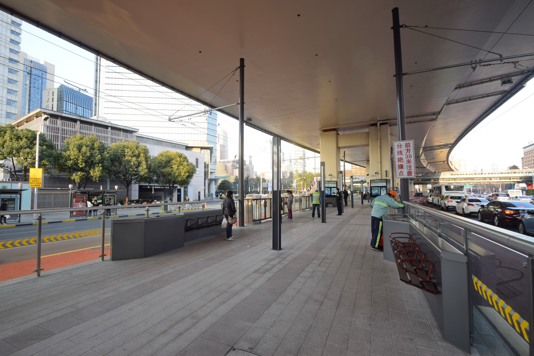 Huashan Road Station, Shanghai Bus Route 71